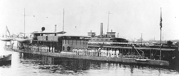 A cropped photograph of the USS Tippecanoe at Boston Navy Yard, circa 1898.